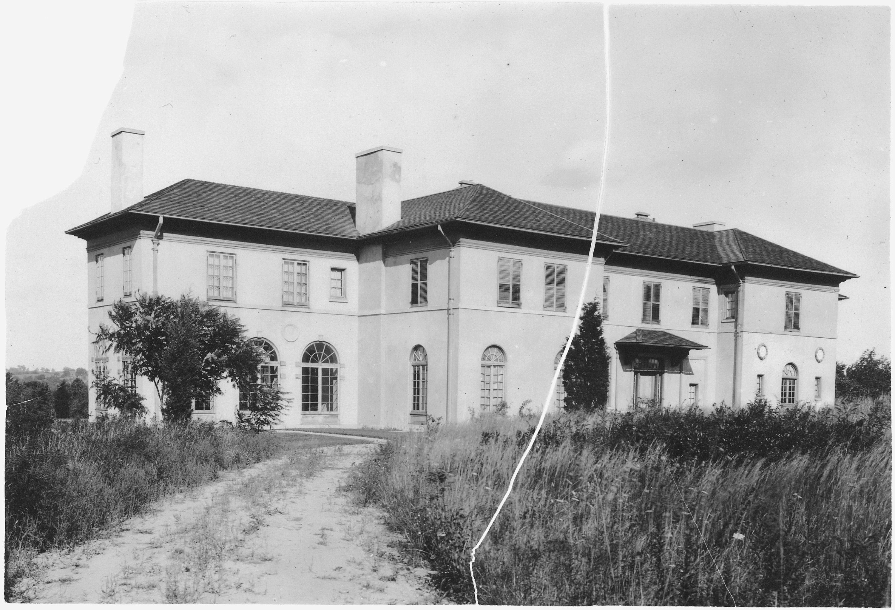 General notes: The Clemens home (1907) in Redding, Fairfield County, Connecticut - known as "Innocence at Home" & later renamed "Stormfield."